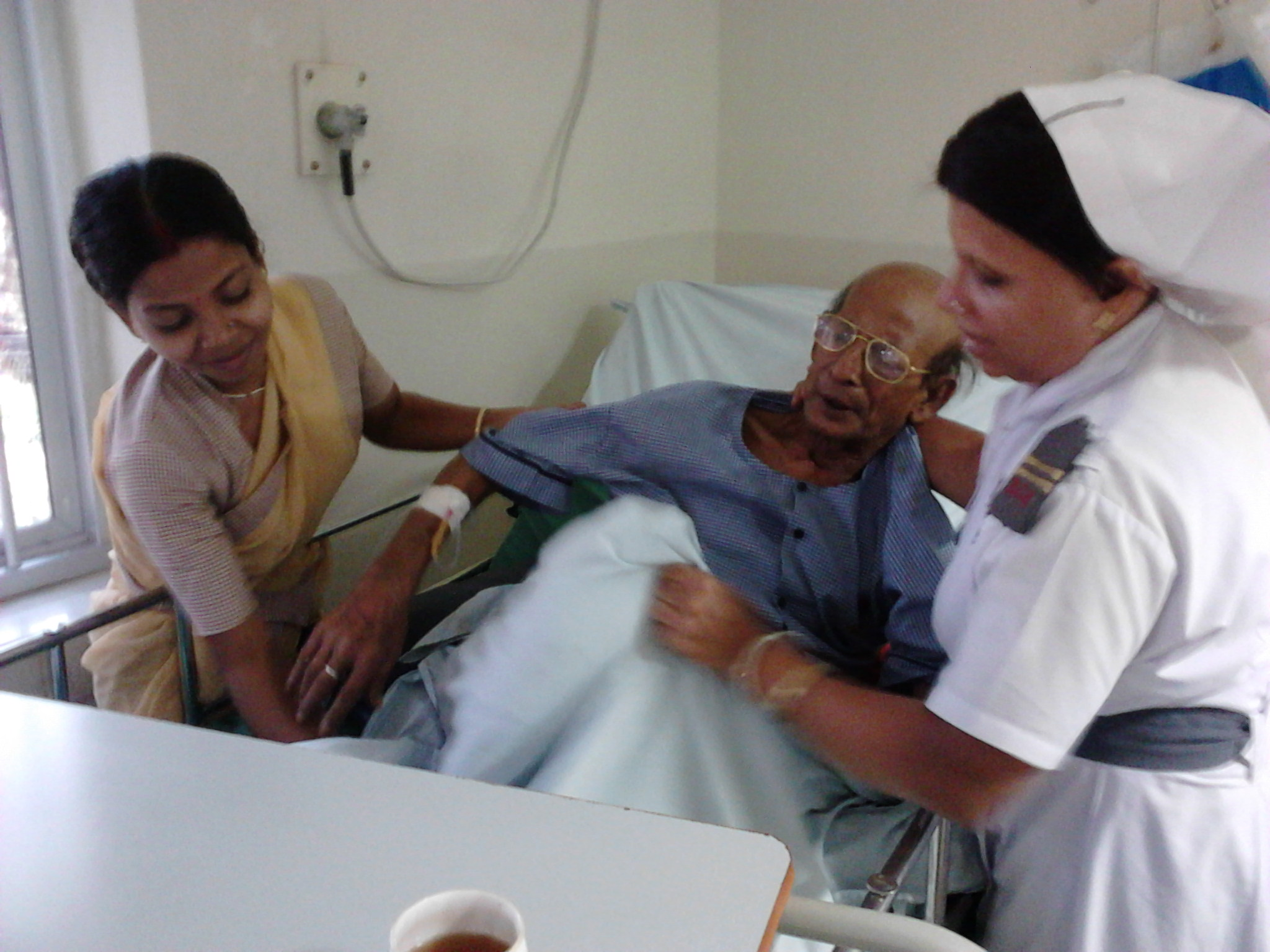 Benu Sen (born May 26, 1932) is an Indian photographer from Kolkata, India. He has been suffering from retention of urine due to prostate enlargement and gained some physiological problems due to his old age. He is being comforted by hospital staff of the 'Barasat Cancer Research & Welfare Centre', Barasat, Kolkata.